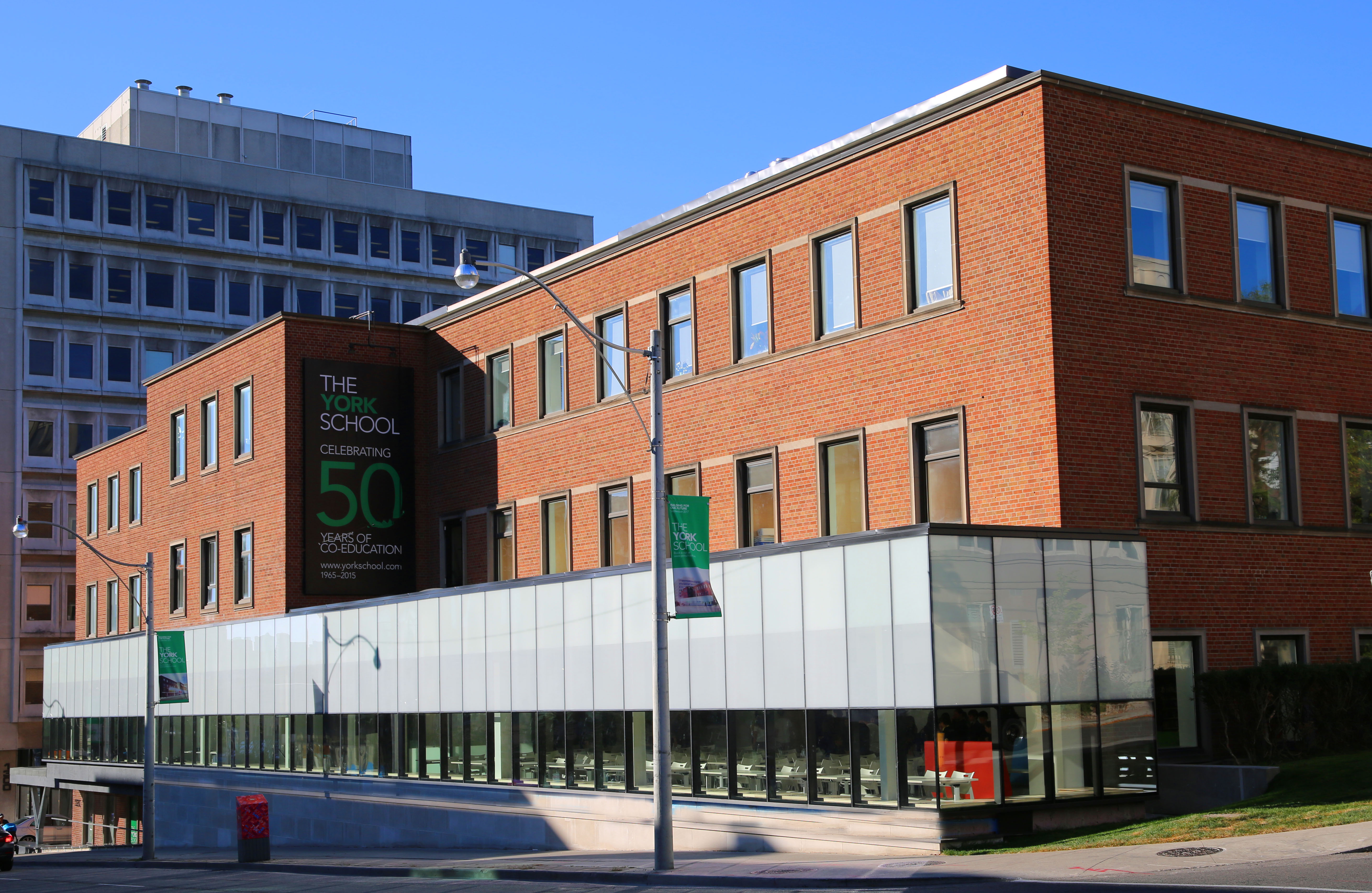 1320 Yonge Street - September, 2017